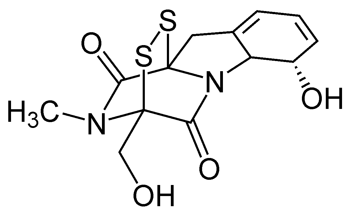 structure of Gliotoxin